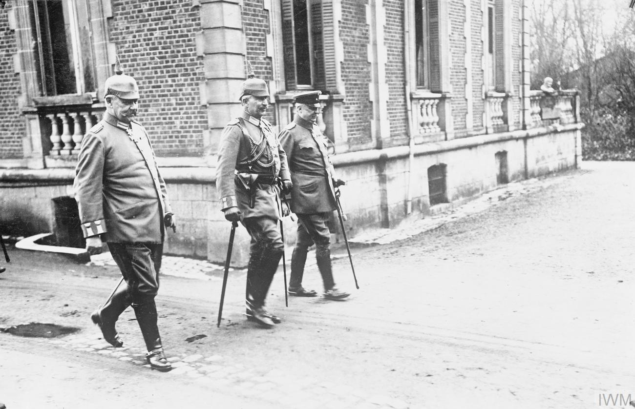 Geiser Theodore (mons) Collection The Kaiser walking with Hindenburg and Ludendorff at Spa (G. H. Q. ).